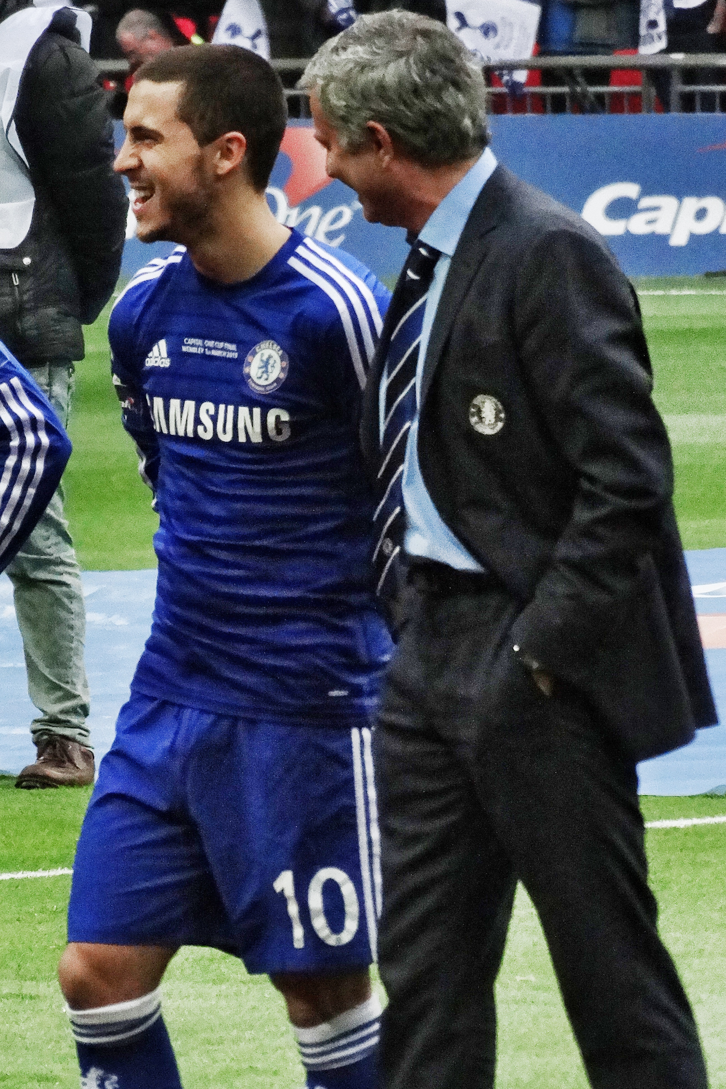 Chelsea 2 Spurs 0 Capital One Cup winners 2015